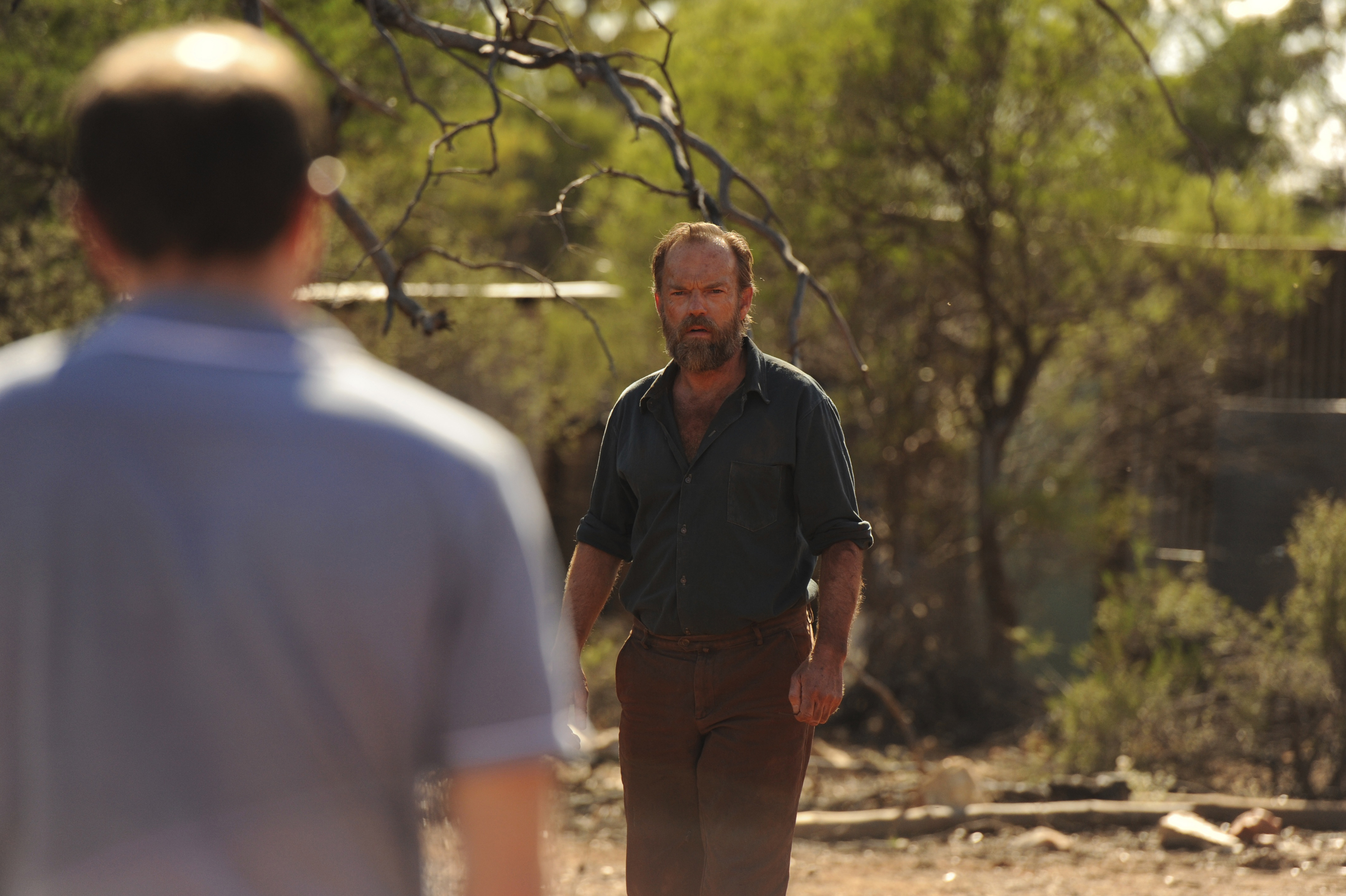 Hugo Weaving while filming for The Turning in Australia